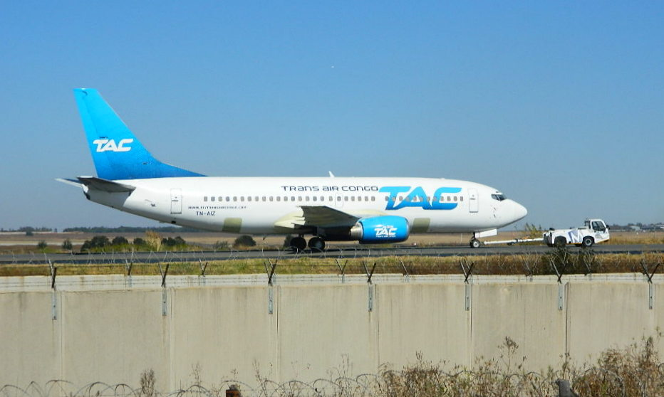 Photo: D.Gallop